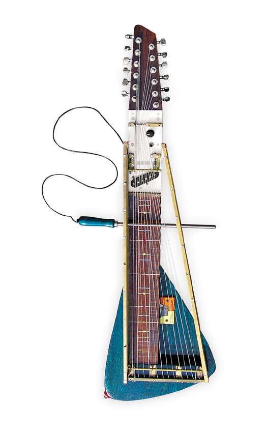 This picture is taken by me (Yuri Landman). I am the builder of this instrument. There are no rights on this picture.